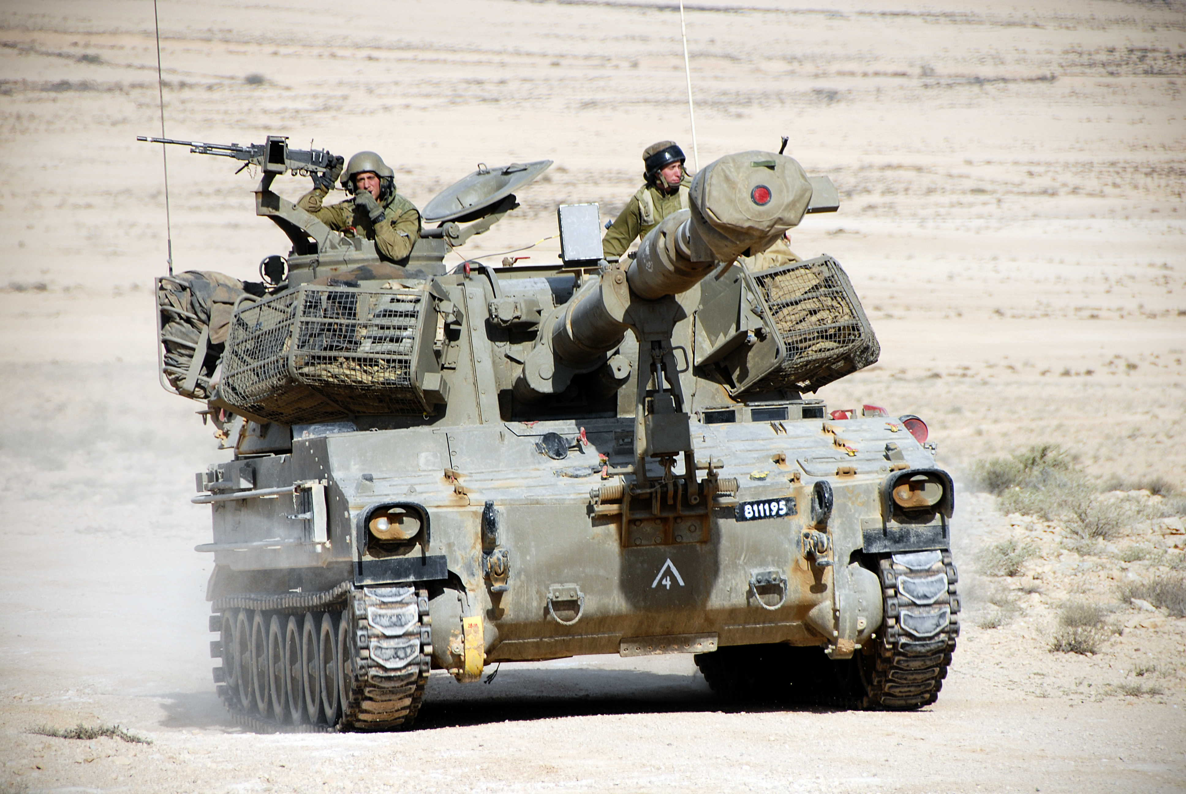 Artillary in action during an Eged Battalion 55 drill. The Israel Defense Forces Facebook • blog • Twitter